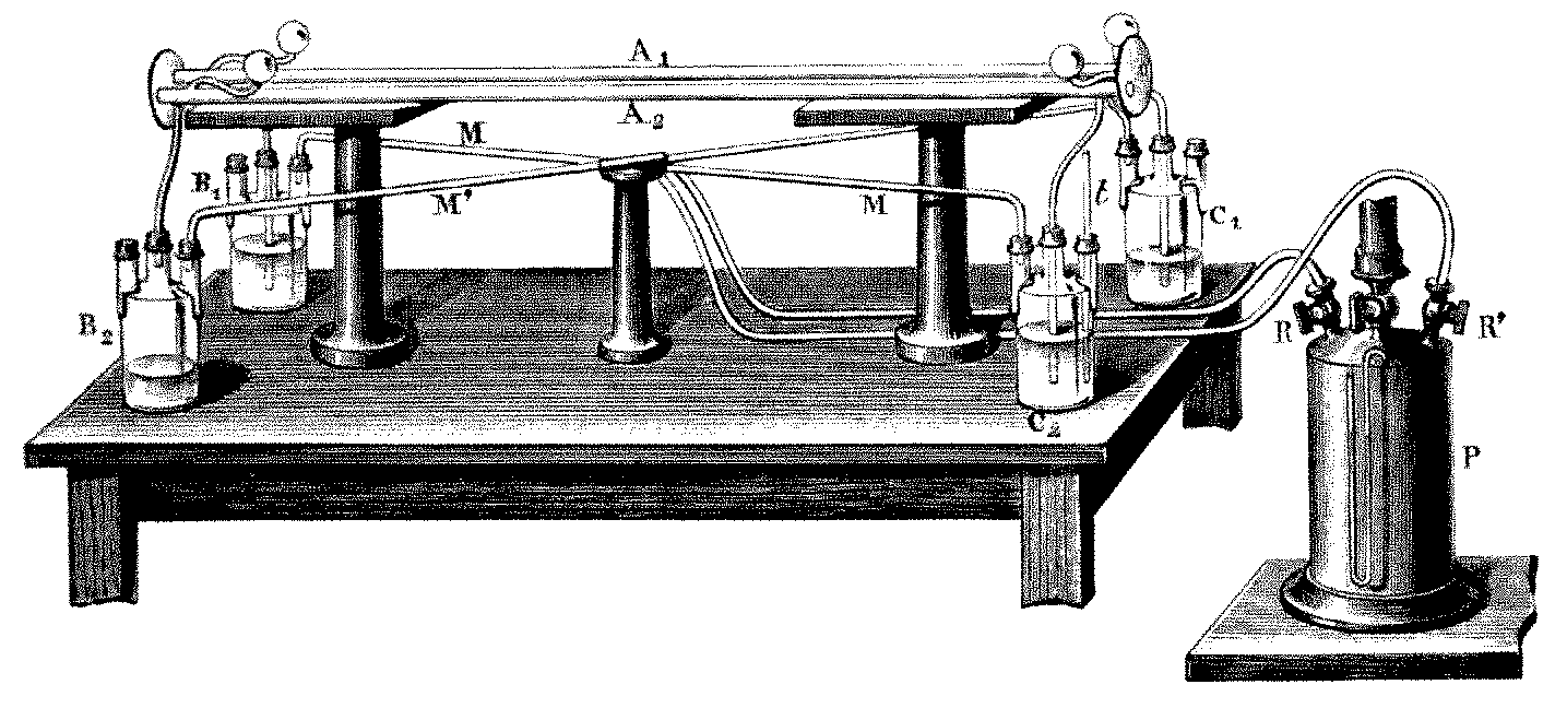 Fizeau-Experiment from 1851 (2)